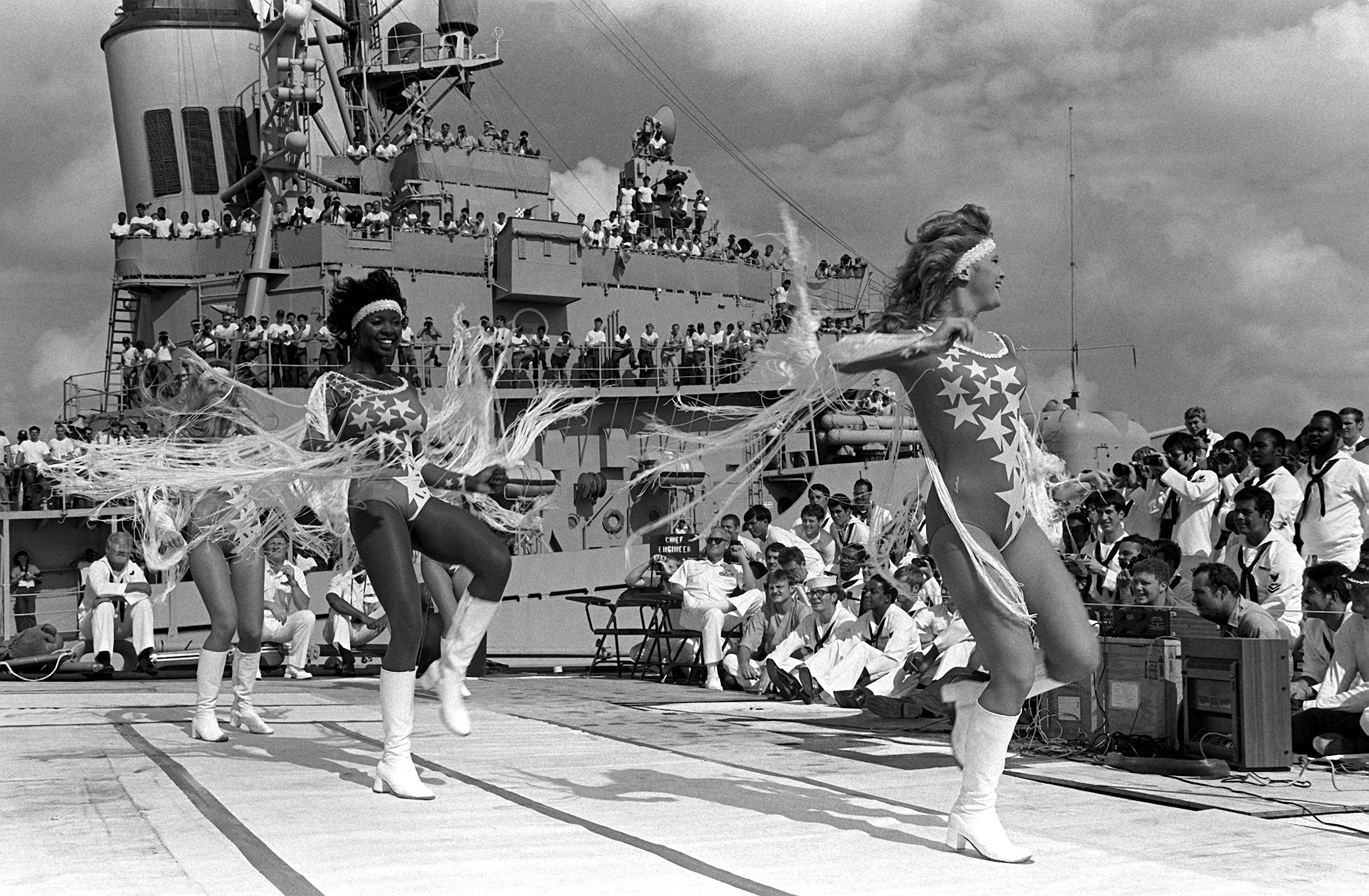 The Dallas Cowboys Cheerleaders perform their USO show "America and Her Music" on the deck of the U.S. Navy guided missile cruiser USS Bainbridge (CGN-25), in 1983. Crew members of the guided missile destroyer USS Waddell (DDG-24) watch from their ship.